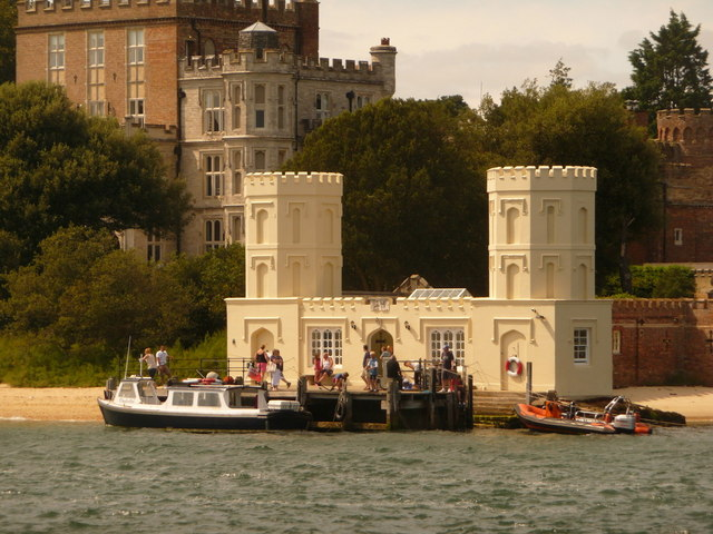 Brownsea Island: Family Pier catches the sun This private pier faces the southeast and will shortly gain direct sunlight only from the side. For now, though, the front is catching the sun rather strikingly.